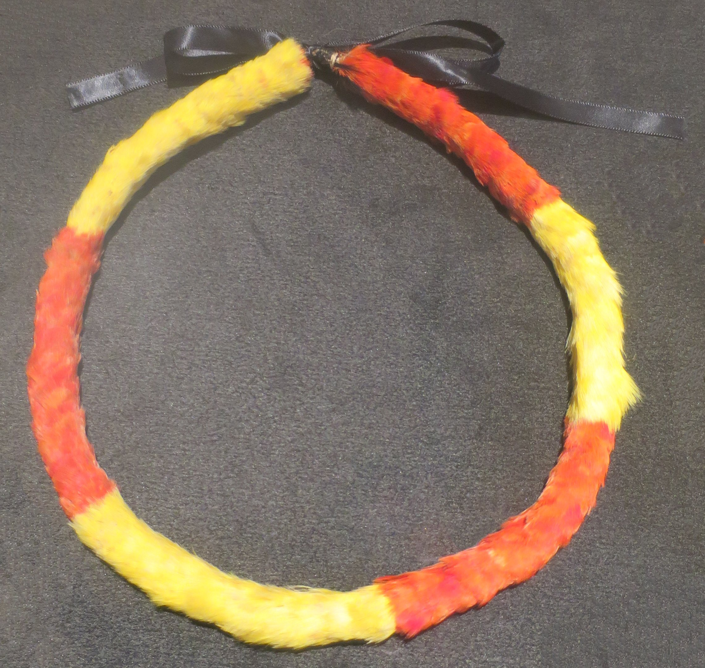 Feathered garland (lei hulu), kamoe style, 'i'iwi and 'ō'ō feathers, yarn and ribbon, property of Charles Reed Bishop, Bishop Museum, Honolulu